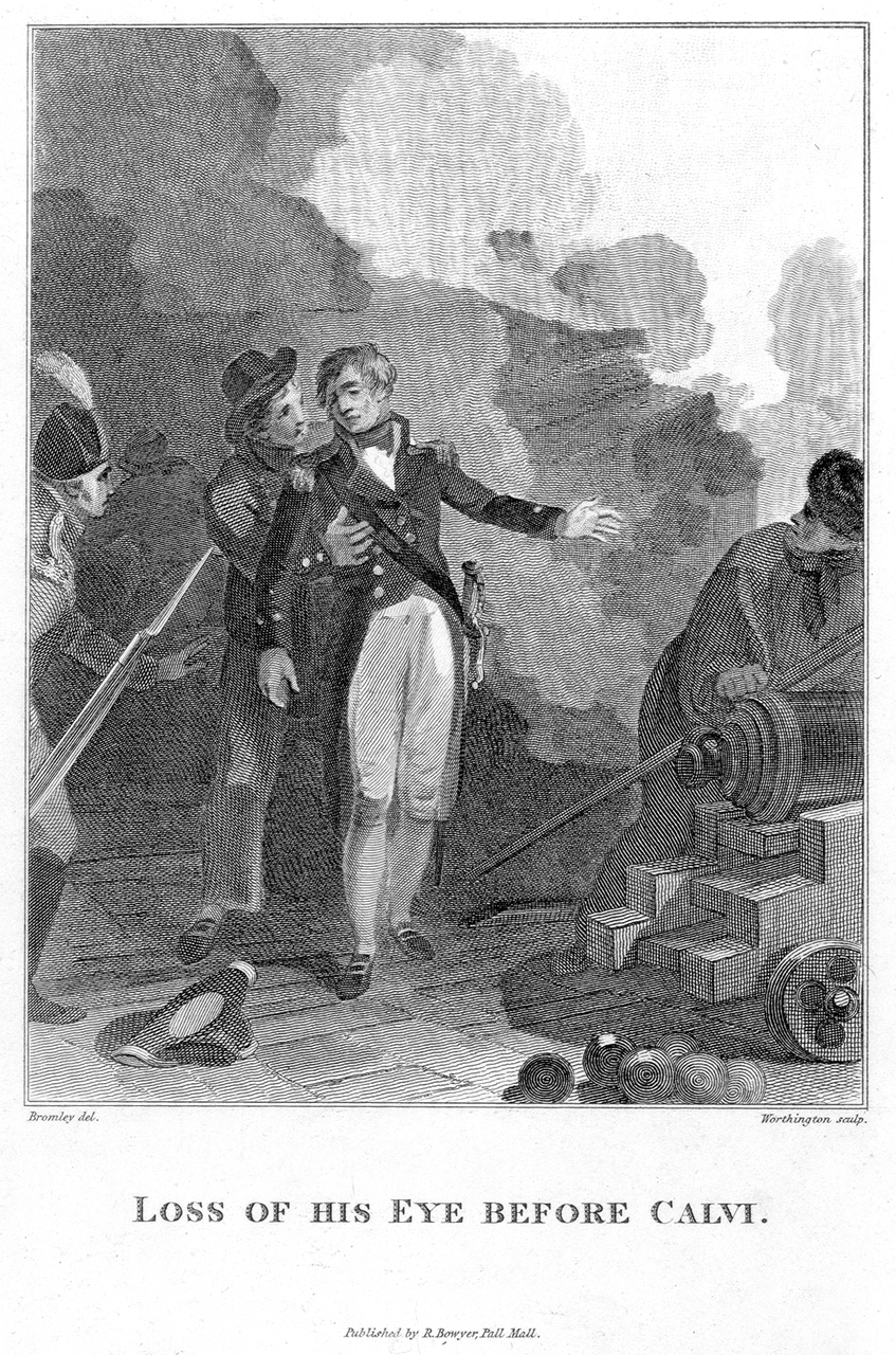 Print depicting the wounding of Horatio Nelson at the Siege of Calvi, 1794